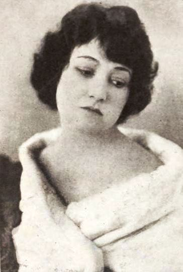 Screenwriter Ouida Bergère, on page 48 of the March 6, 1920 Exhibitors Herald.